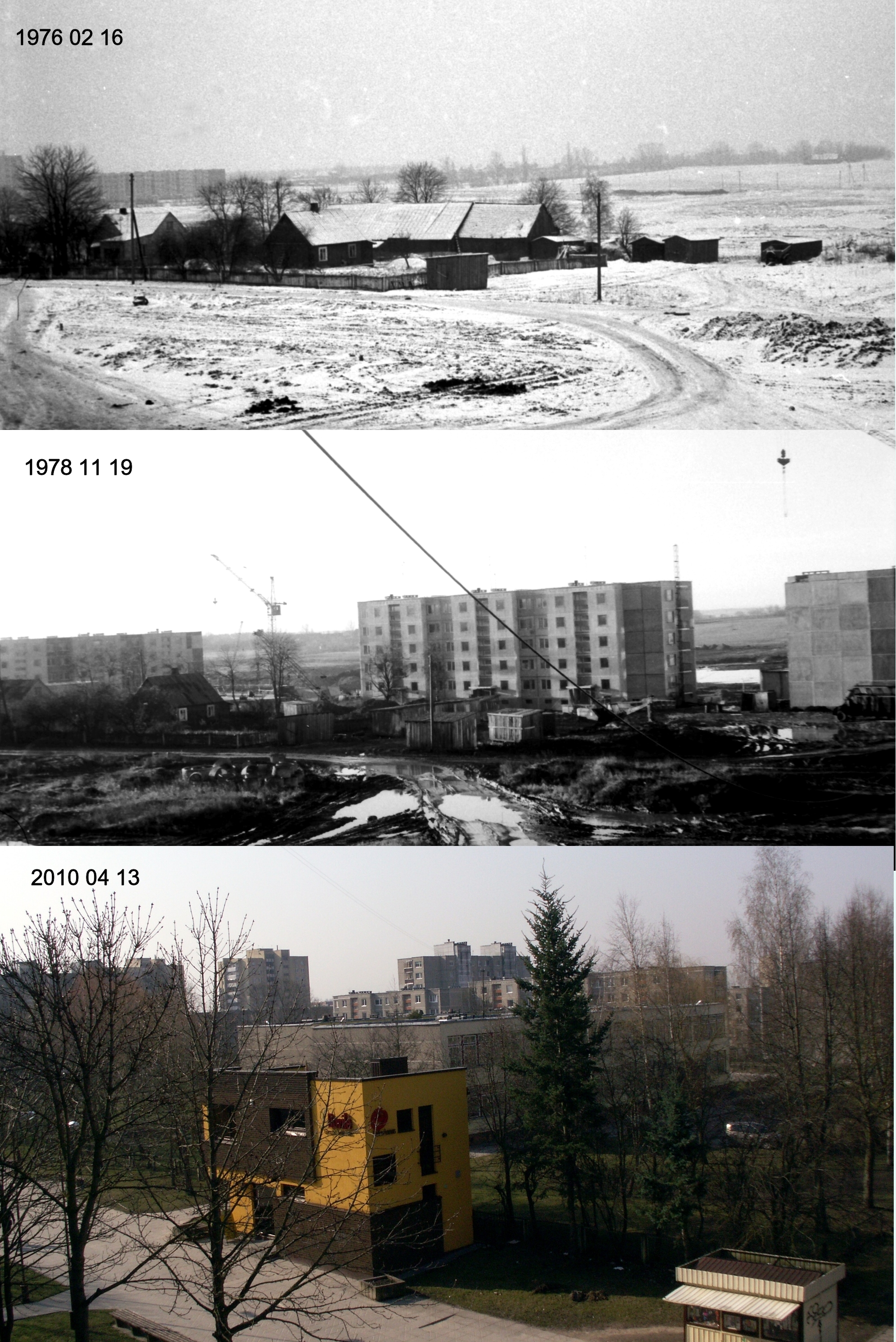 Former village Dainai 1976-2010, Lithuania